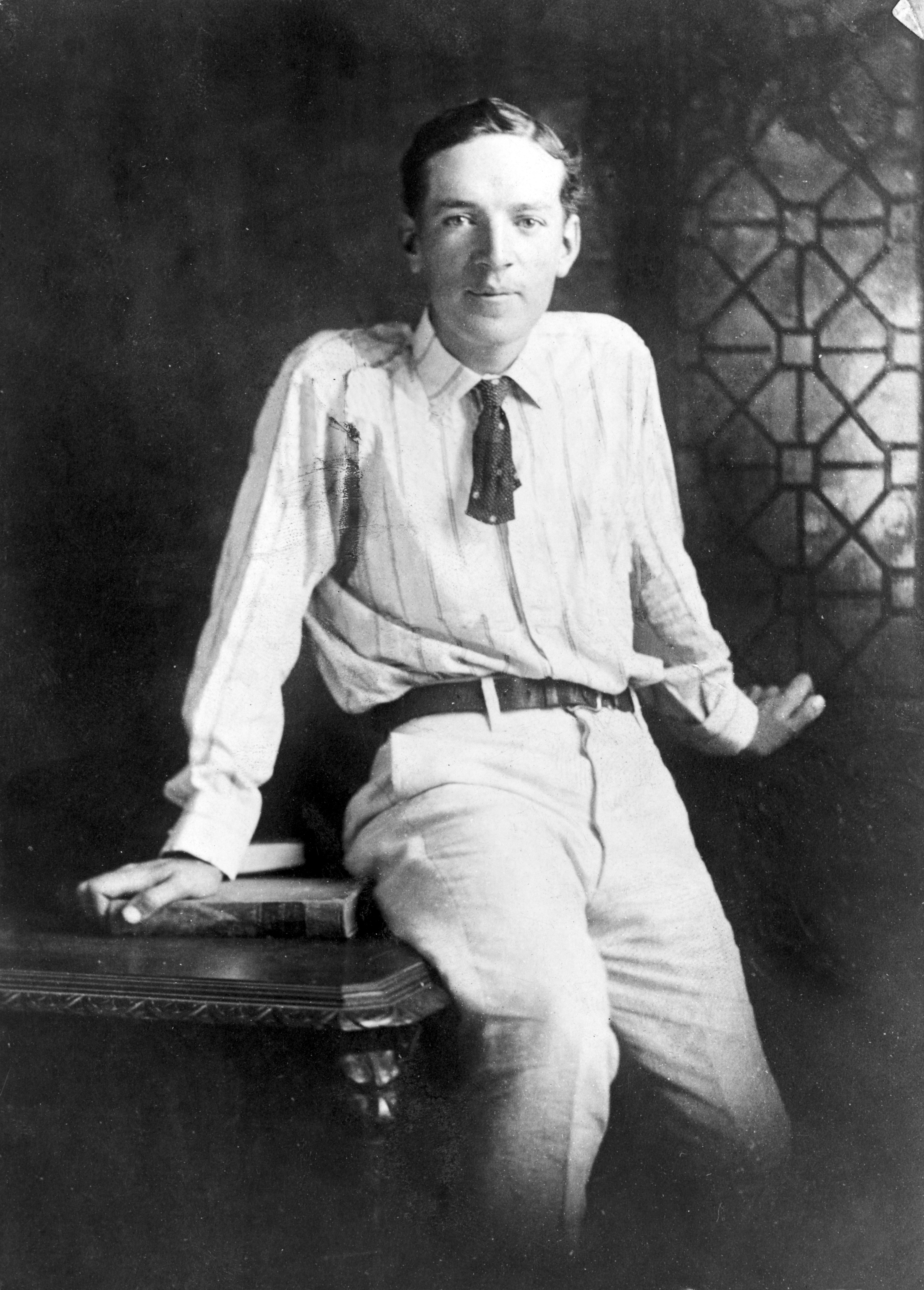 Upton Sinclair, three-quarter length portrait, seated on desk, facing front. Forms part of: New York World-Telegram and the Sun Newspaper Photograph Collection.